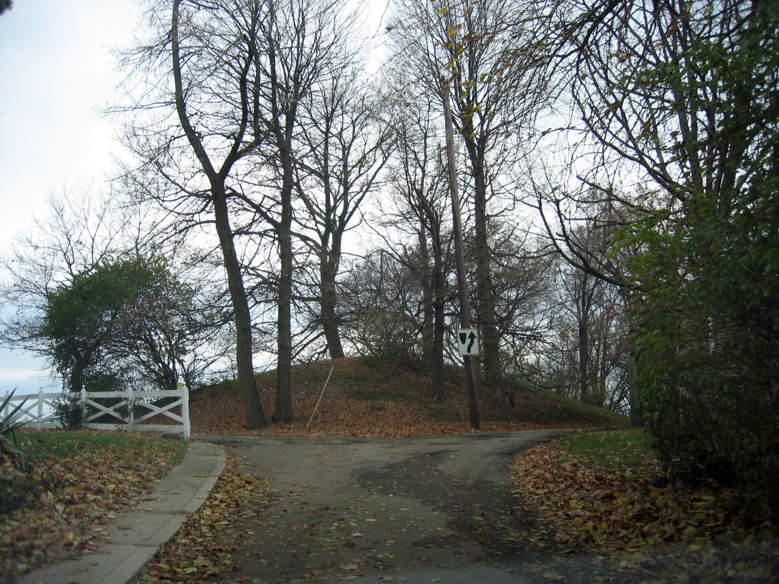 View from the north of the Norwood Mound, located in Water Tower Park off Mound Avenue in Norwood, Ohio, United States. Built by people of the Adena culture, the mound is an archaeological site and listed on the National Register of Historic Places.